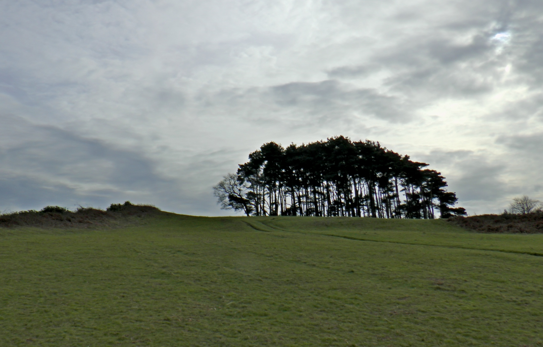 Large hillfort enclosing 2.7 hectares (6.7 acres) in a D shape, on a hill east of Margam Abbey, Neath Port Talbot.